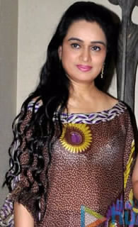 Padmini Kolhapure at Success bash of 'Bhoothnath Returns'